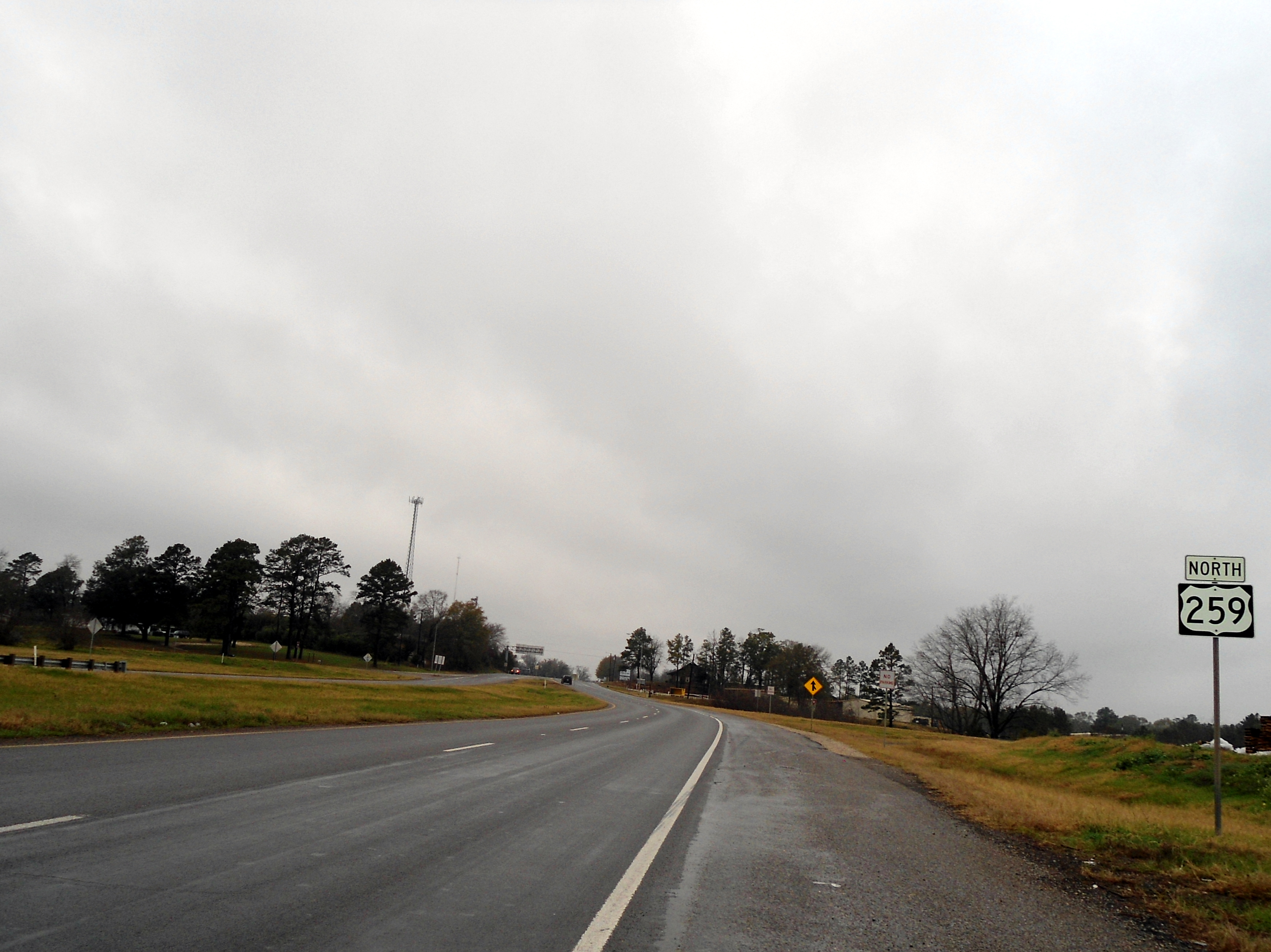 First reassurance marker for US 259 heading north in Nacogdoches, TX. "Behind" this photo is the southern terminus